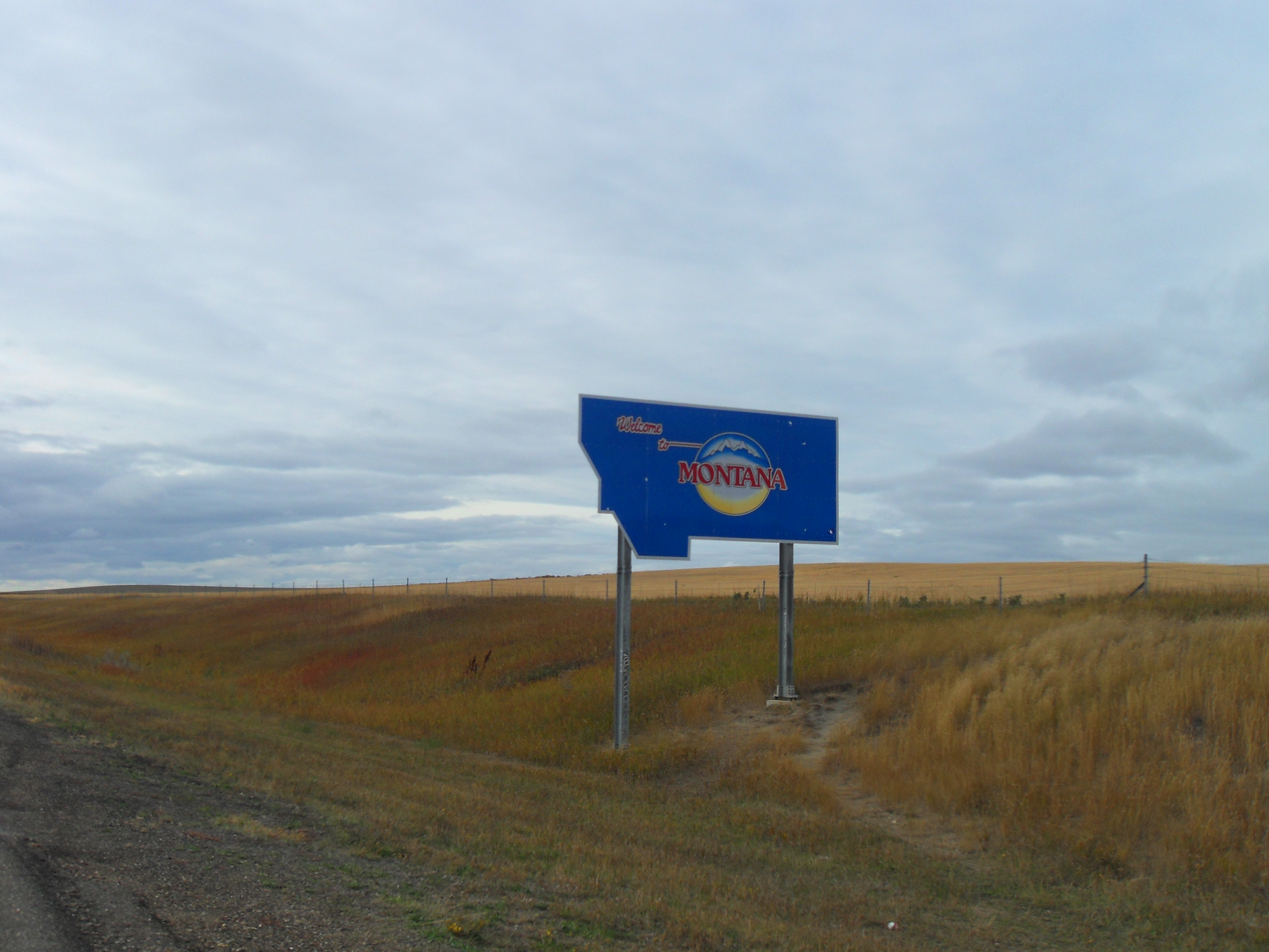 Montana Welcome Sign